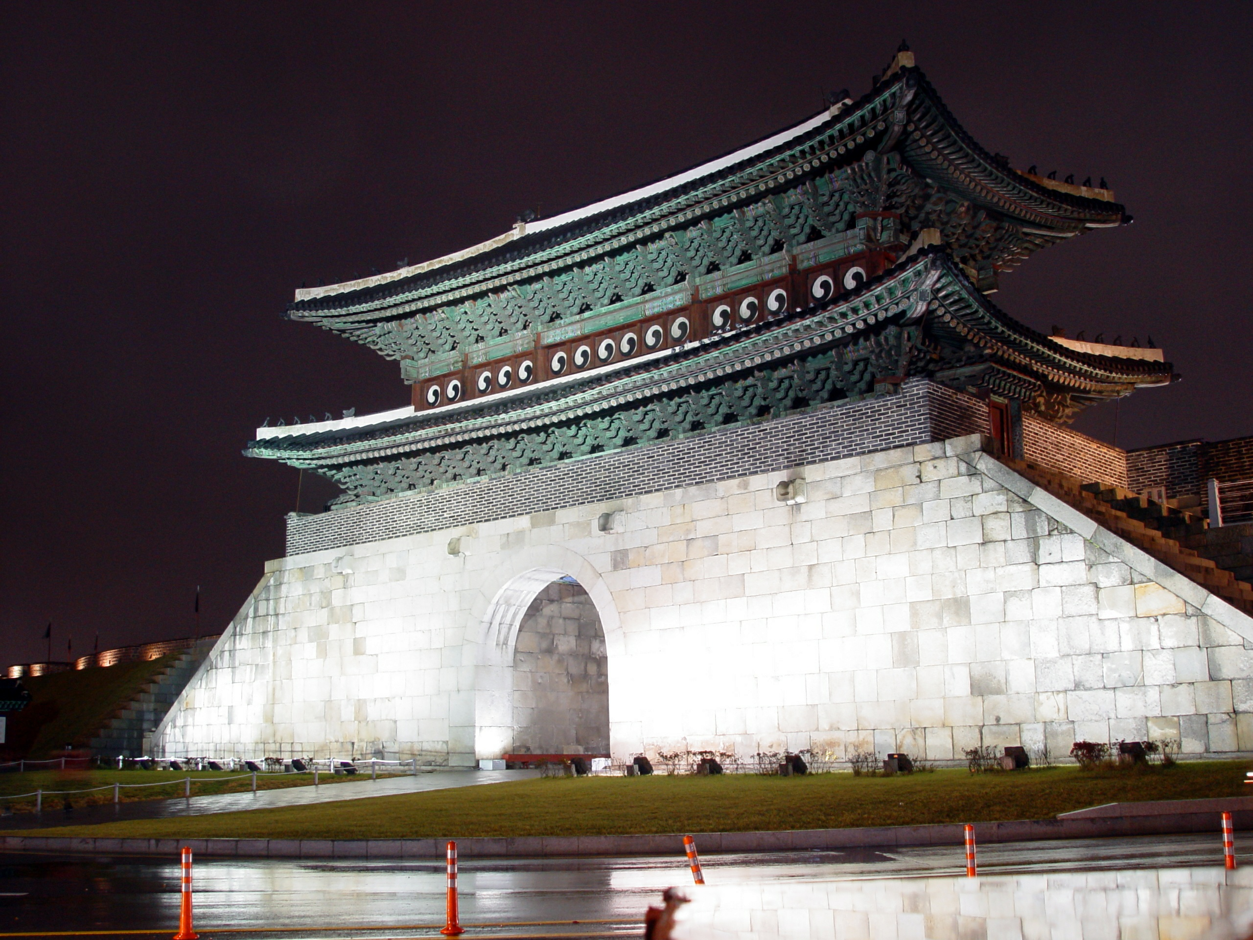 Nighttime view of the western face of Jangan Gate, Hwaseong Fortress, Suwon, South Korea